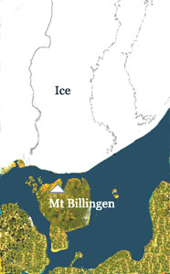 Illustration of Late Baltic Ice Lake, about 10,300 years BP-(8300 BC, 9th millennium BC)